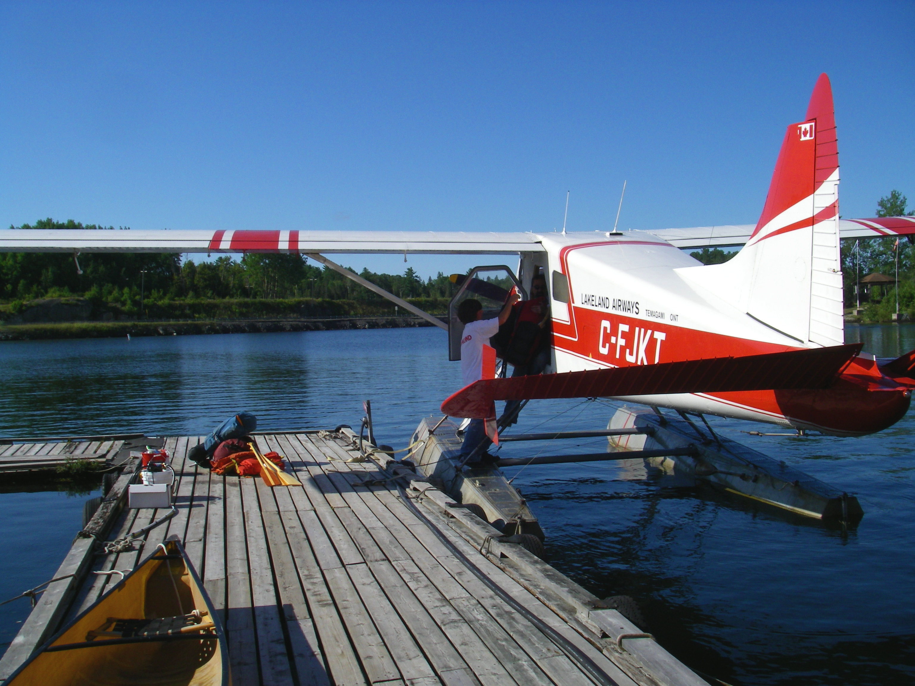 de Havilland DCH-2 Beaver at the Temagami Water Aerodrome